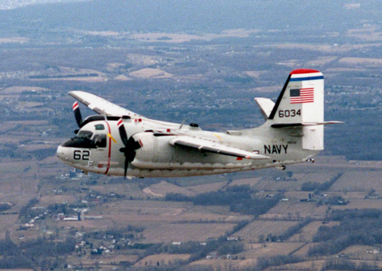 A U.S. Navy Grumman C-1A Trader carrier on-board delivery (COD) aircraft (BuNo 146034) from Naval Air Station Willow Grove, Pennsylvania. The Trader was to be retired from service due to the fire hazard created by storing its high-octane fuel aboard ship, this plane today being on display at NAS Willow Grove.